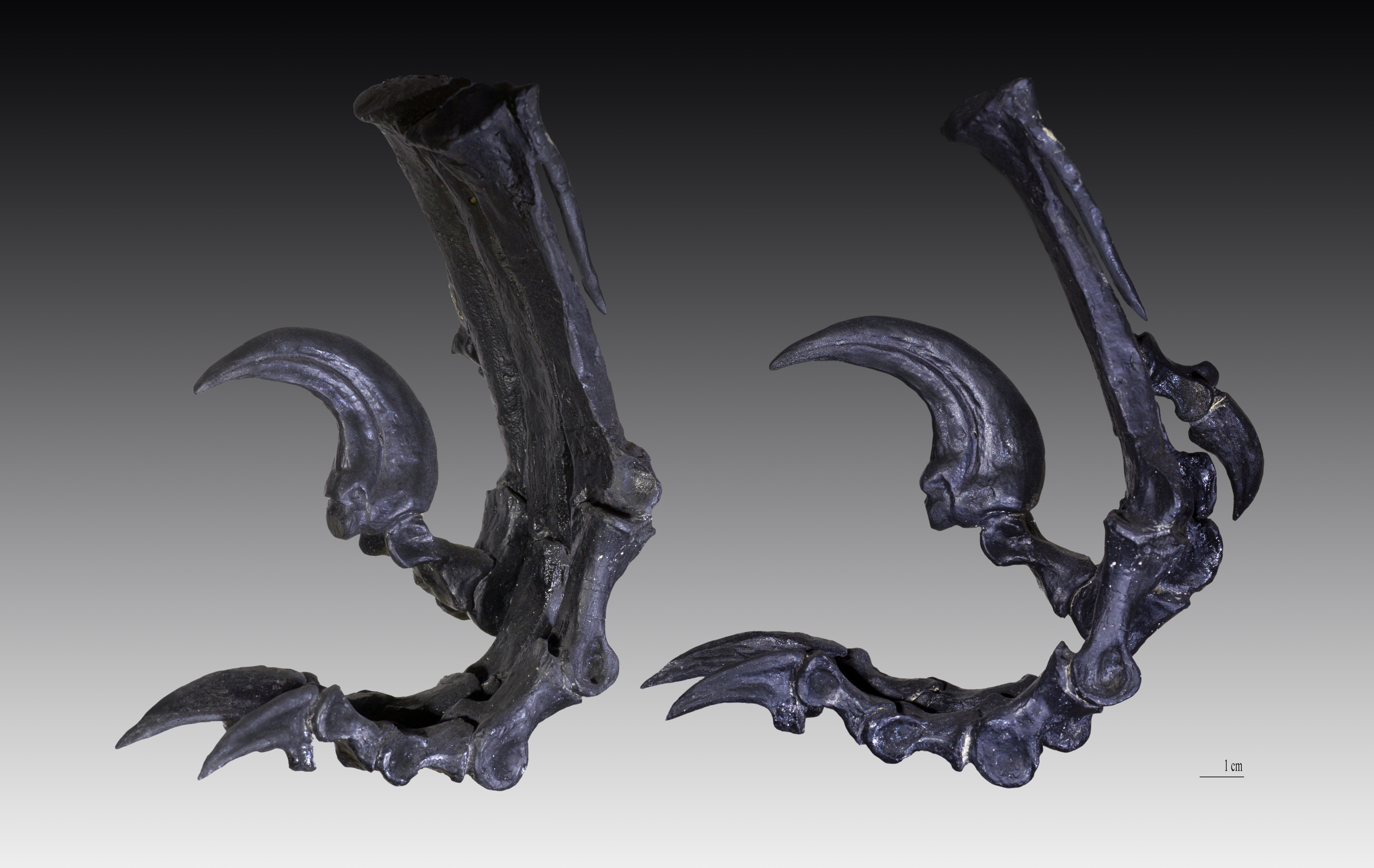 Cast of left hind foot of Deinonychus antirrhopus (holotype YPM 5205) (Ostrom 1969) Restored by John Ostrom of Peabody Museum of Natural History. Private collection. Stage : Cretaceus. 115-108 million years Before the Current Era (from the mid-aptian to early albian stages) Locality : Cloverly formation, Montana, USA. This photograph is published in Audubon Magazine January - February 2015